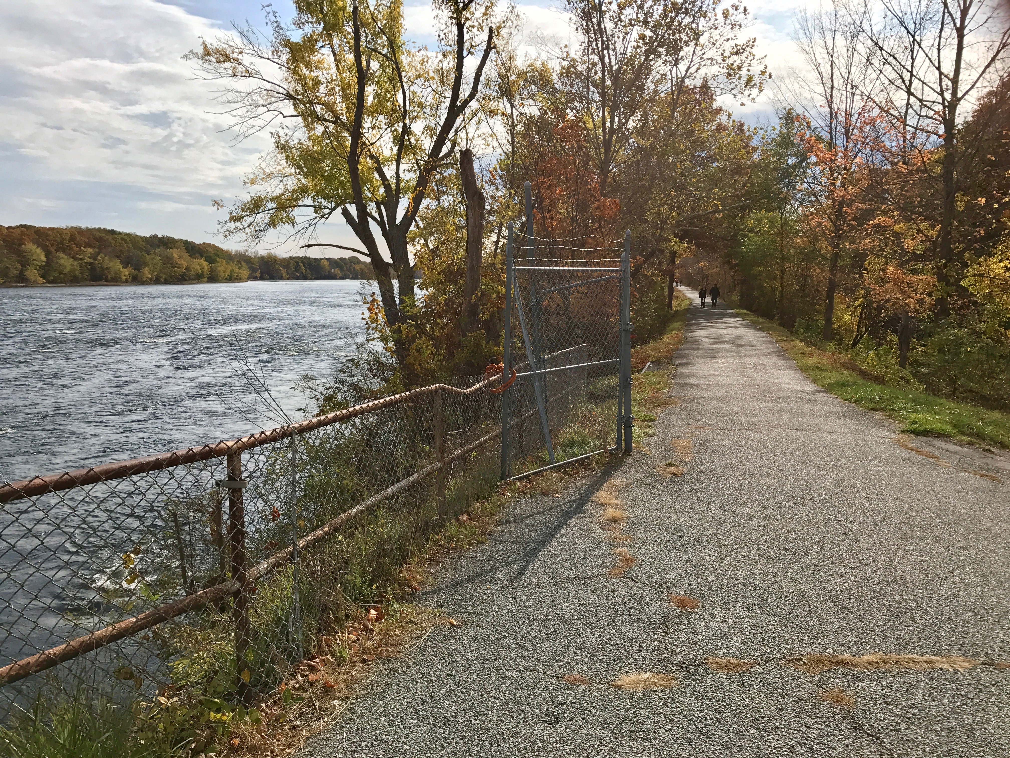 View looking south at the Connecticut River and Windsor Locks Canal State Park Trail from the northern trail head in Suffield, Connecticut.